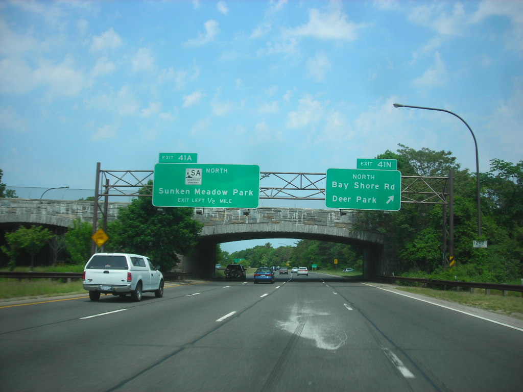 Southern State Parkway at Exit 41N, Bay Shore Road North in Deer Park, New York.